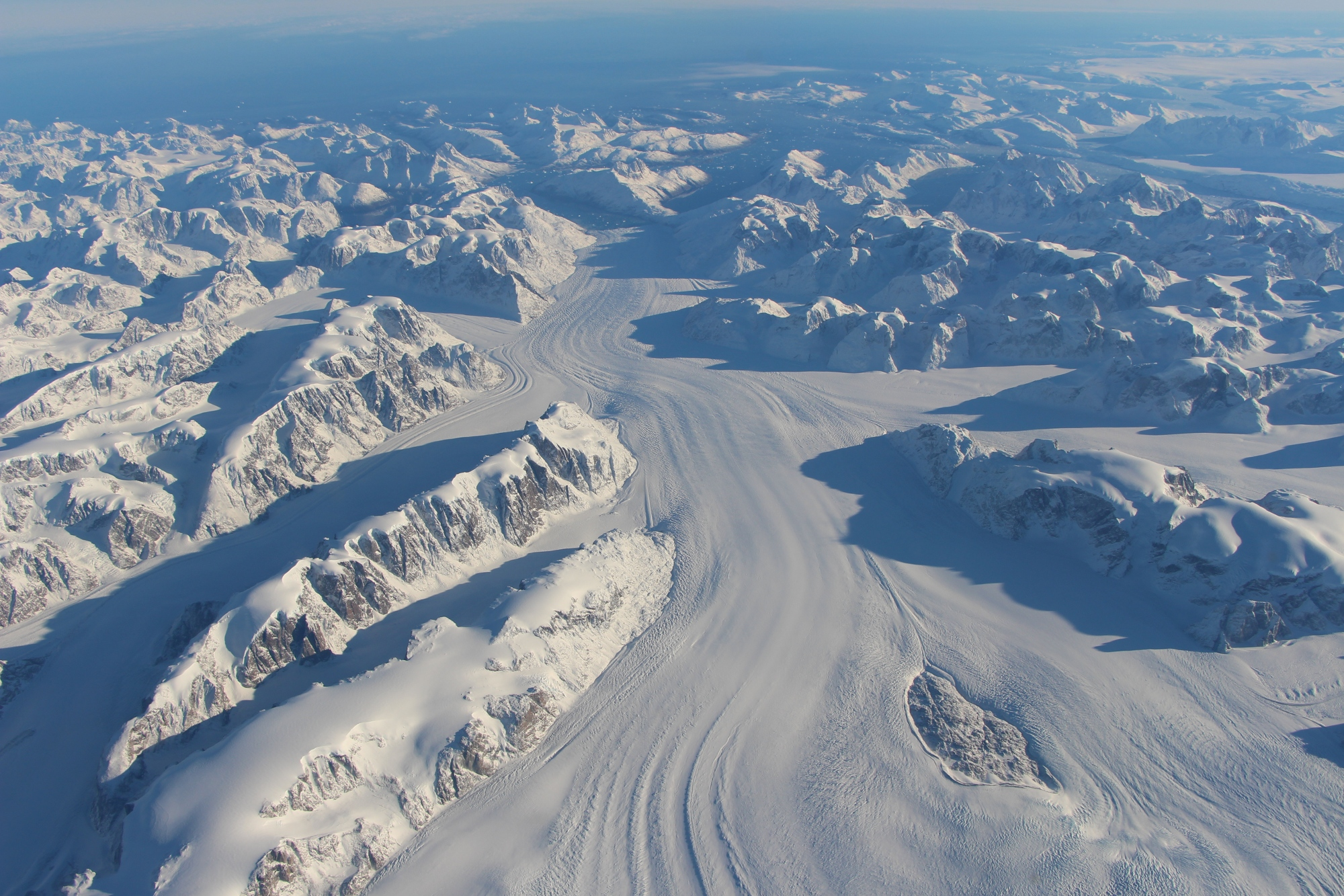 Heimdal Glacier in southern Greenland, in an image captured on Oct. 13, 2015, from NASA Langley Research Center's Falcon 20 aircraft flying 33,000 feet above mean sea level. NASA’s Operation IceBridge, an airborne survey of polar ice, recently finalized two overlapping campaigns at both of Earth’s poles. Down south, the mission observed a big drop in the height of two glaciers situated in the Antarctic Peninsula, while in the north it collected much needed measurements of the status of land and sea ice at the end of the Arctic summer melt season. This was the first time in its seven years of operations that IceBridge carried out parallel flights in the Arctic and Antarctic. Every year, the mission flies to the Arctic in the spring and to Antarctica in the fall to keep collect an uninterrupted record of yearly changes in the height of polar ice. Read more: Credits: NASA/Goddard/John Sonntag NASA image use policy. NASA Goddard Space Flight Center enables NASA’s mission through four scientific endeavors: Earth Science, Heliophysics, Solar System Exploration, and Astrophysics. Goddard plays a leading role in NASA’s accomplishments by contributing compelling scientific knowledge to advance the Agency’s mission. Follow us on Twitter Like us on Facebook Find us on Instagram